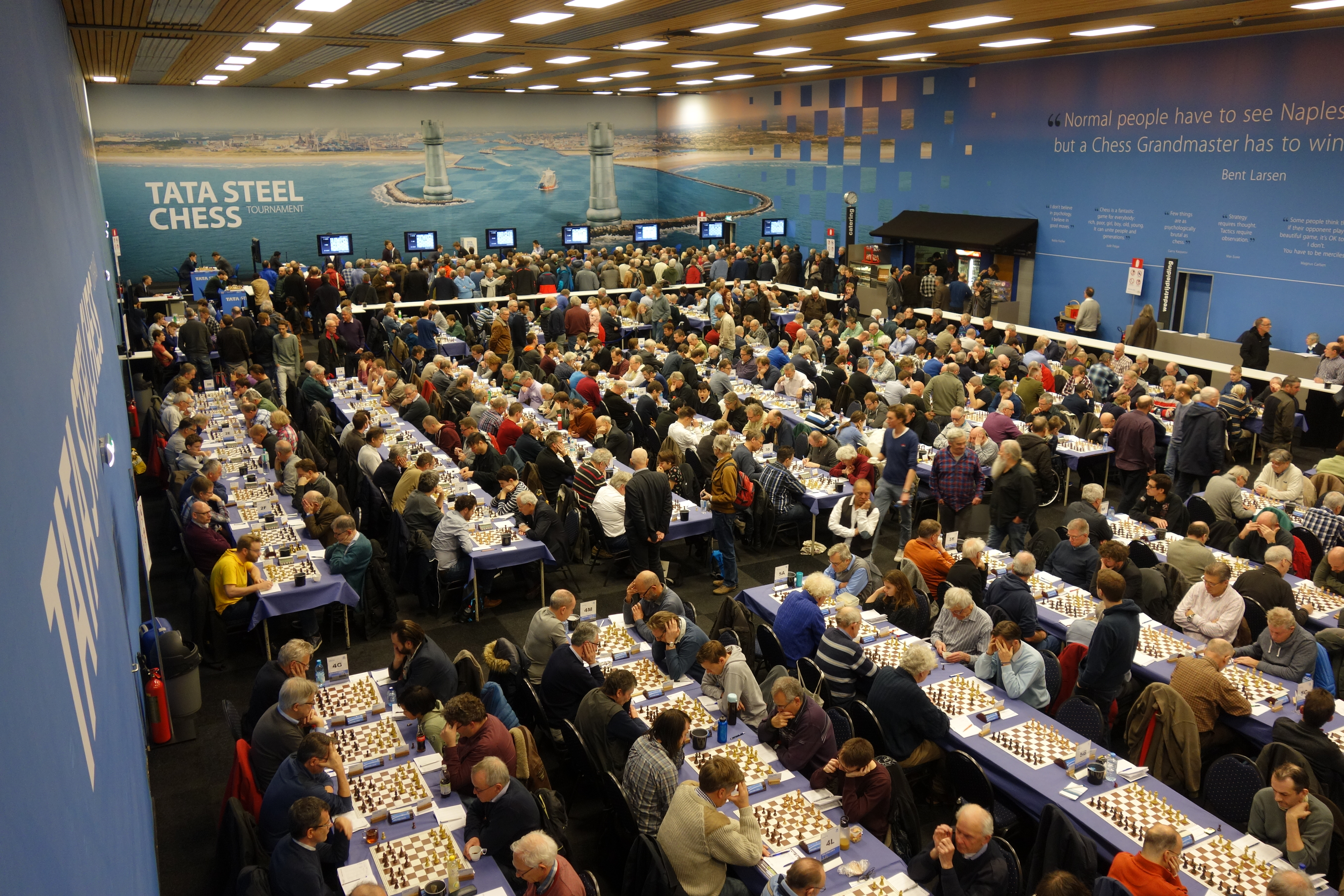 Tata Steel Chess Tournament 2017, Wijk aan Zee (the Netherlands), 28 January 2017. Interior of Dorpshuis De Moriaan.